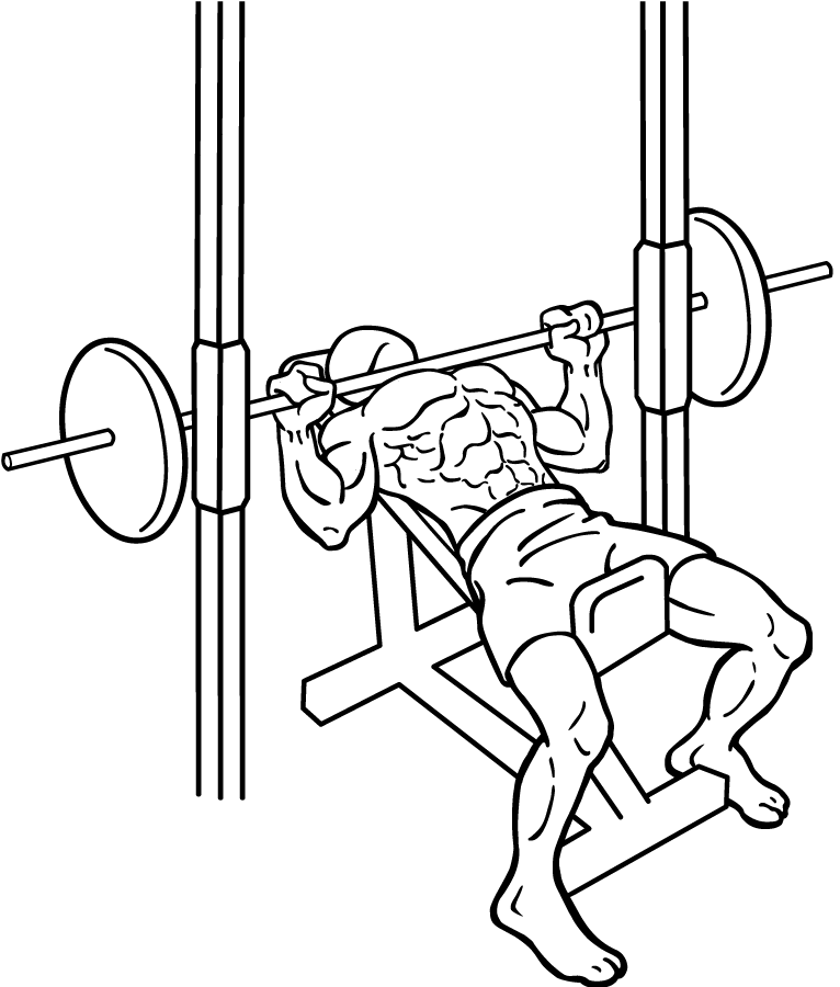 an exercise of chest